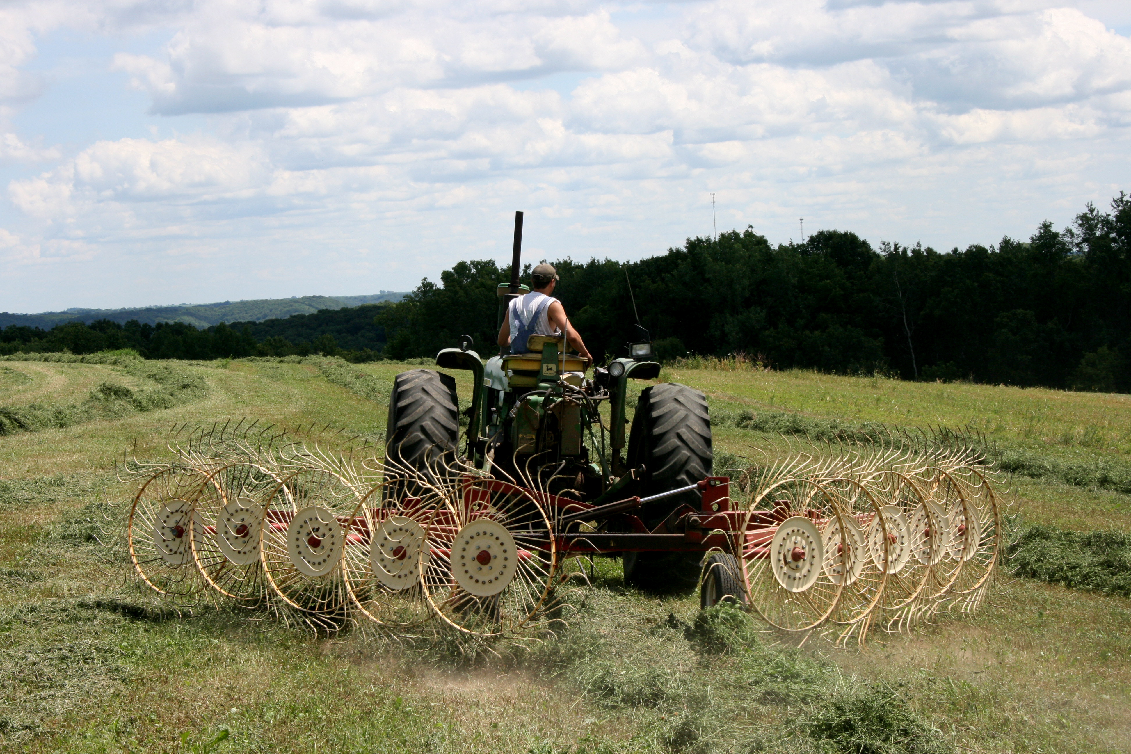 John Deere 4020 Diesel with a star-wheel hay rake at Attleson Farm, Wisconsin, USA